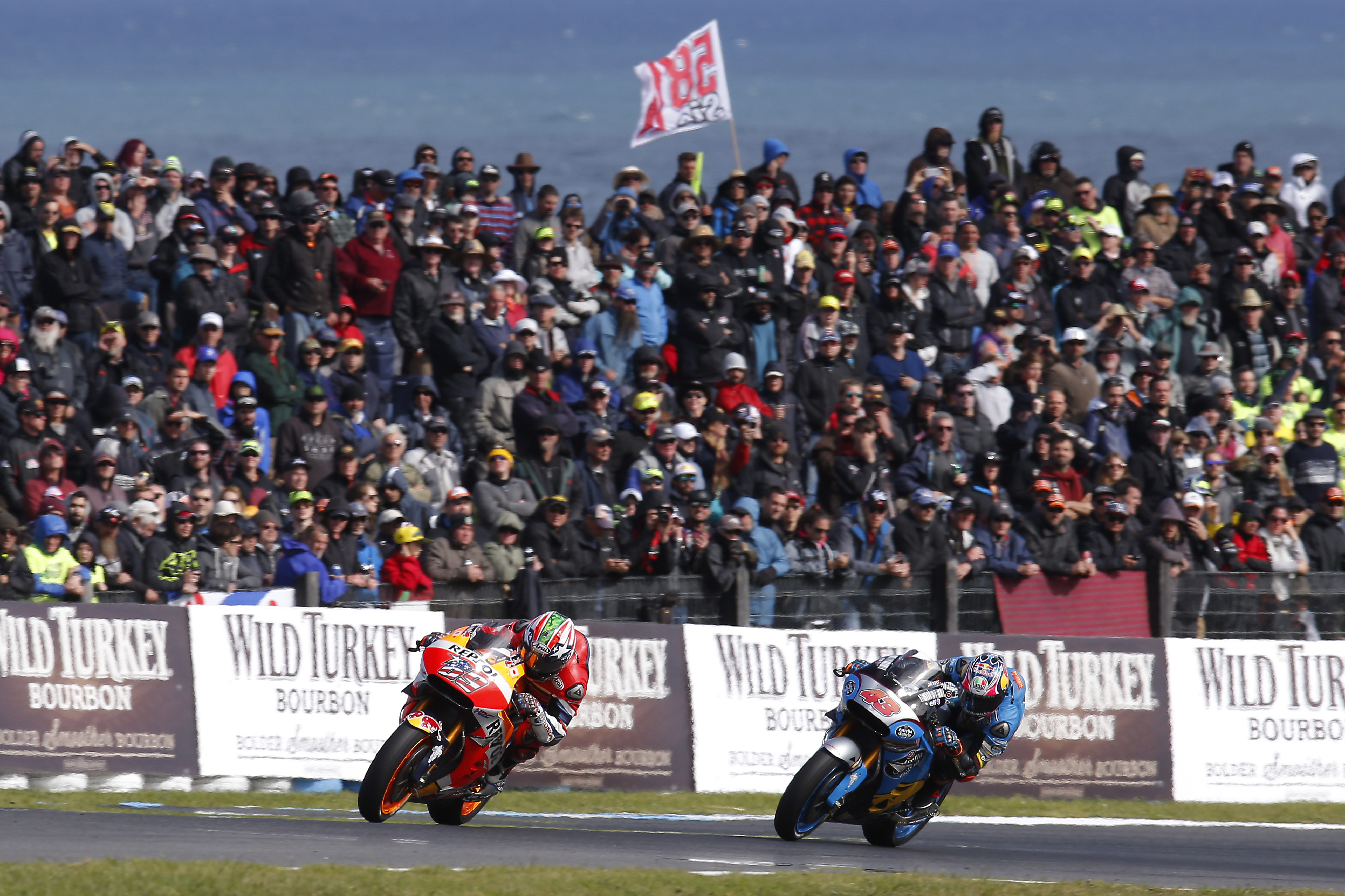 Nicky Hayden, riding his Repsol Honda and replacing Dani Pedrosa, battling with the Estrella Galicia 0,0 Marc VDS Honda of Jack Miller at the 2016 Australian Grand Prix.